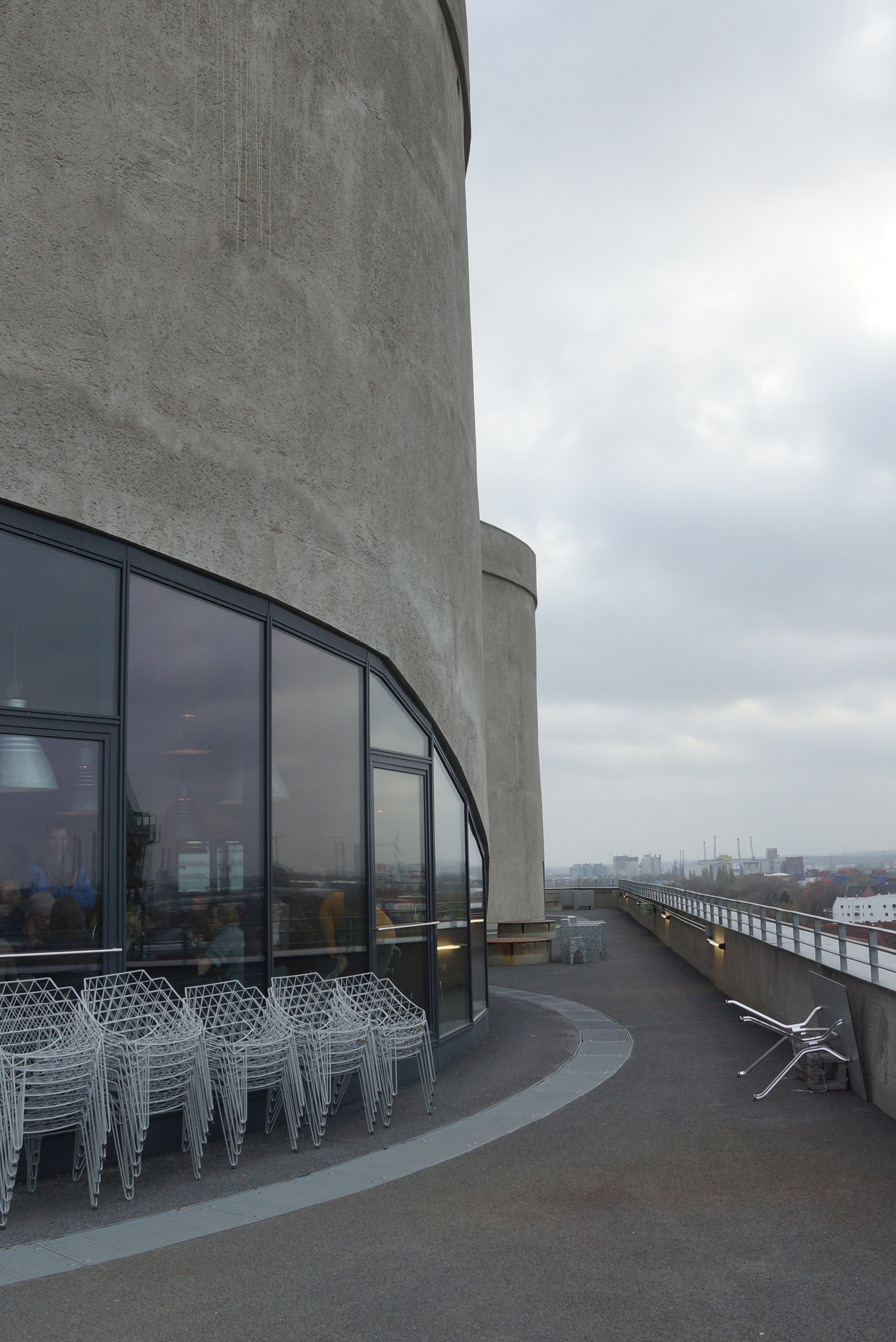 Hamburg (Wilhelmsburg), Germany: Flak tower n°VI Café vju un western balcony